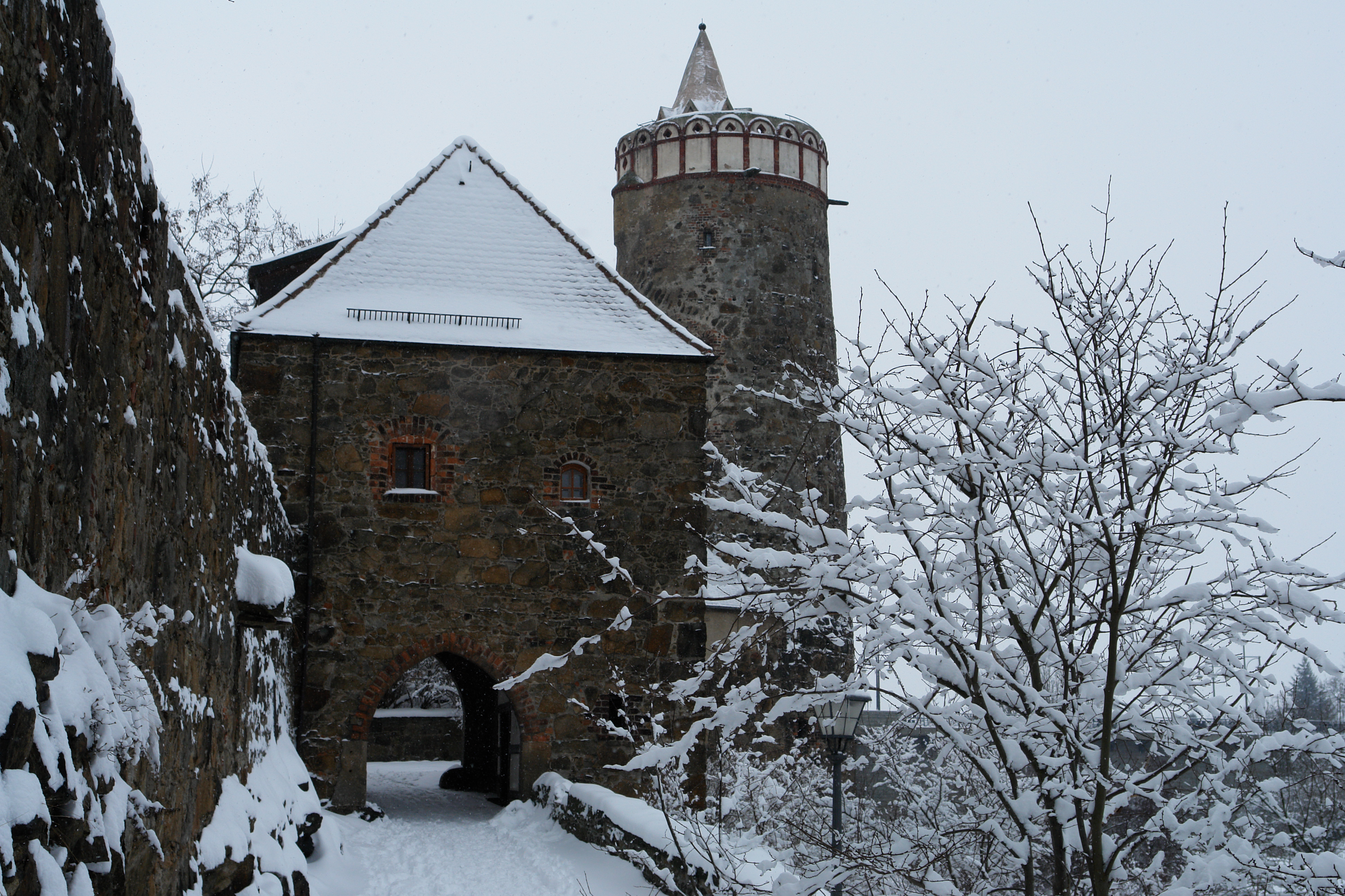 The Mill Gate in Bautzen, Germany.